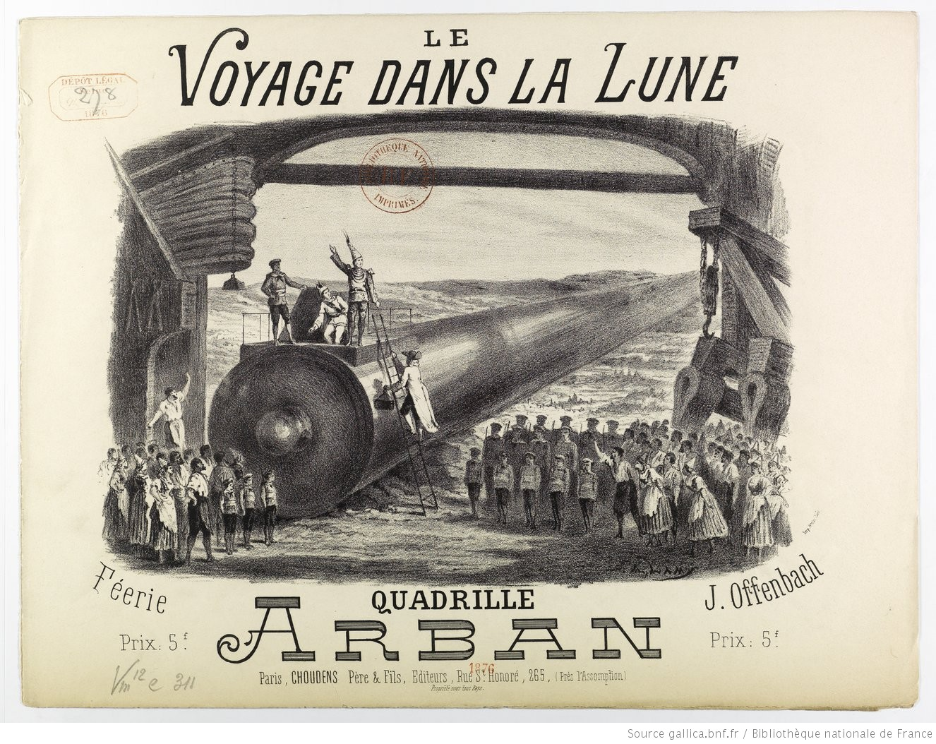 Sheet music depicting scene from operetta